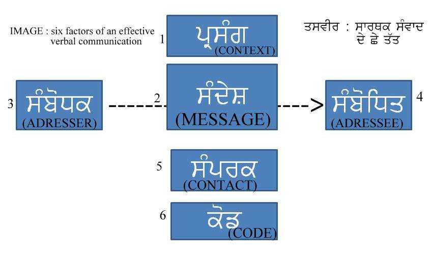 this images denotes six main factors which are important for a varbal communication to be effective. these were given by Roman Jakobsn.